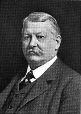 Eliphalet Williams Bliss circa 1900